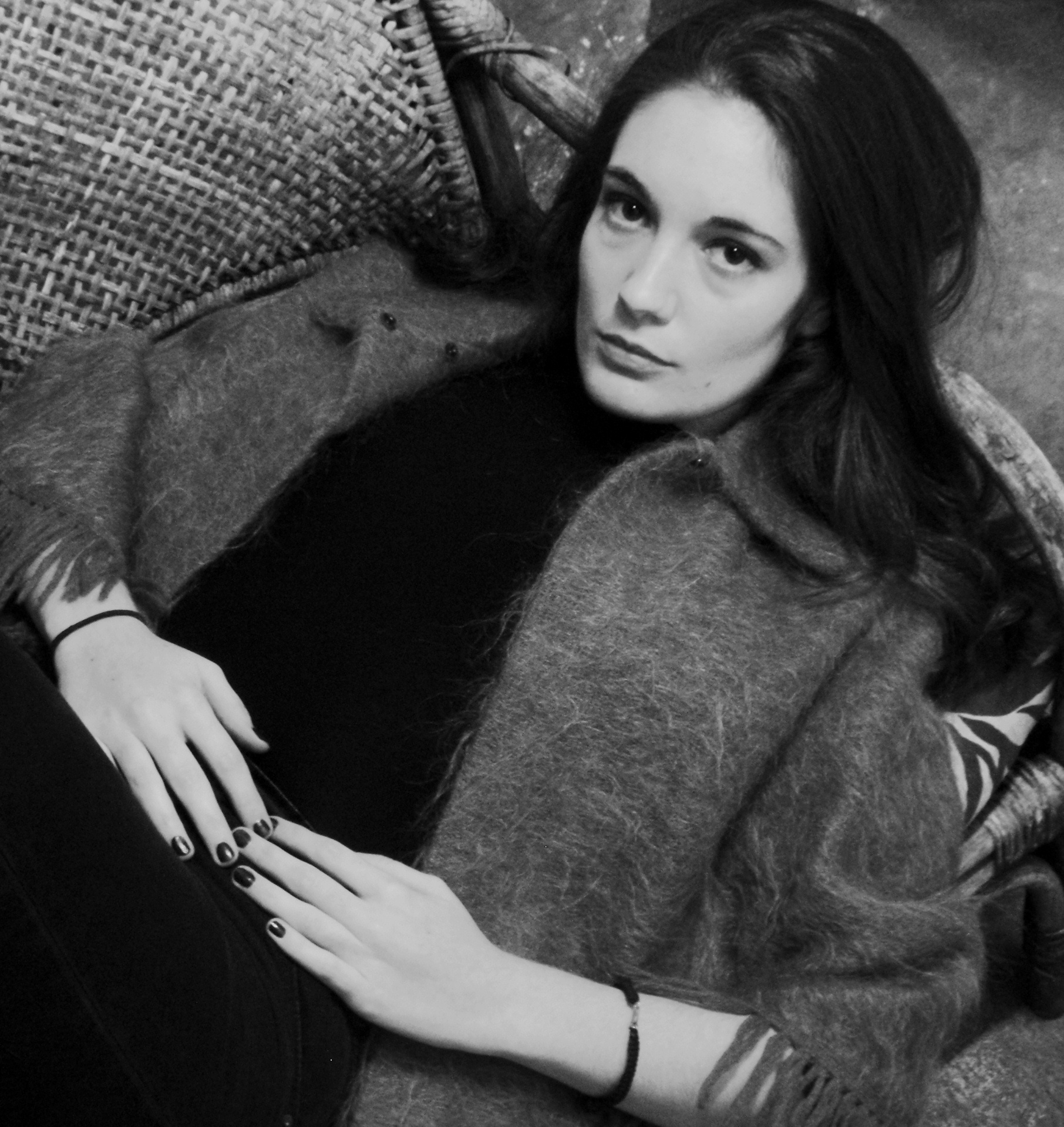 This is an official press release used by Contogeorge in promotion of her sophomore EP, "Glasshouse Living." It's been used in several media outlets.